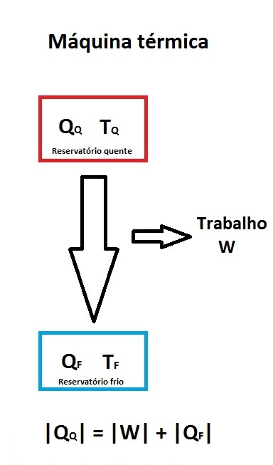 Máquina Térmica